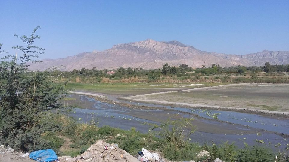 It is a famous lake shaped fresh water stream in Paniala.